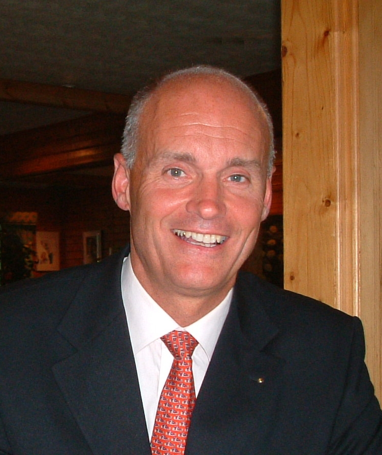 Dutch television host/commentator Jur Raatjes